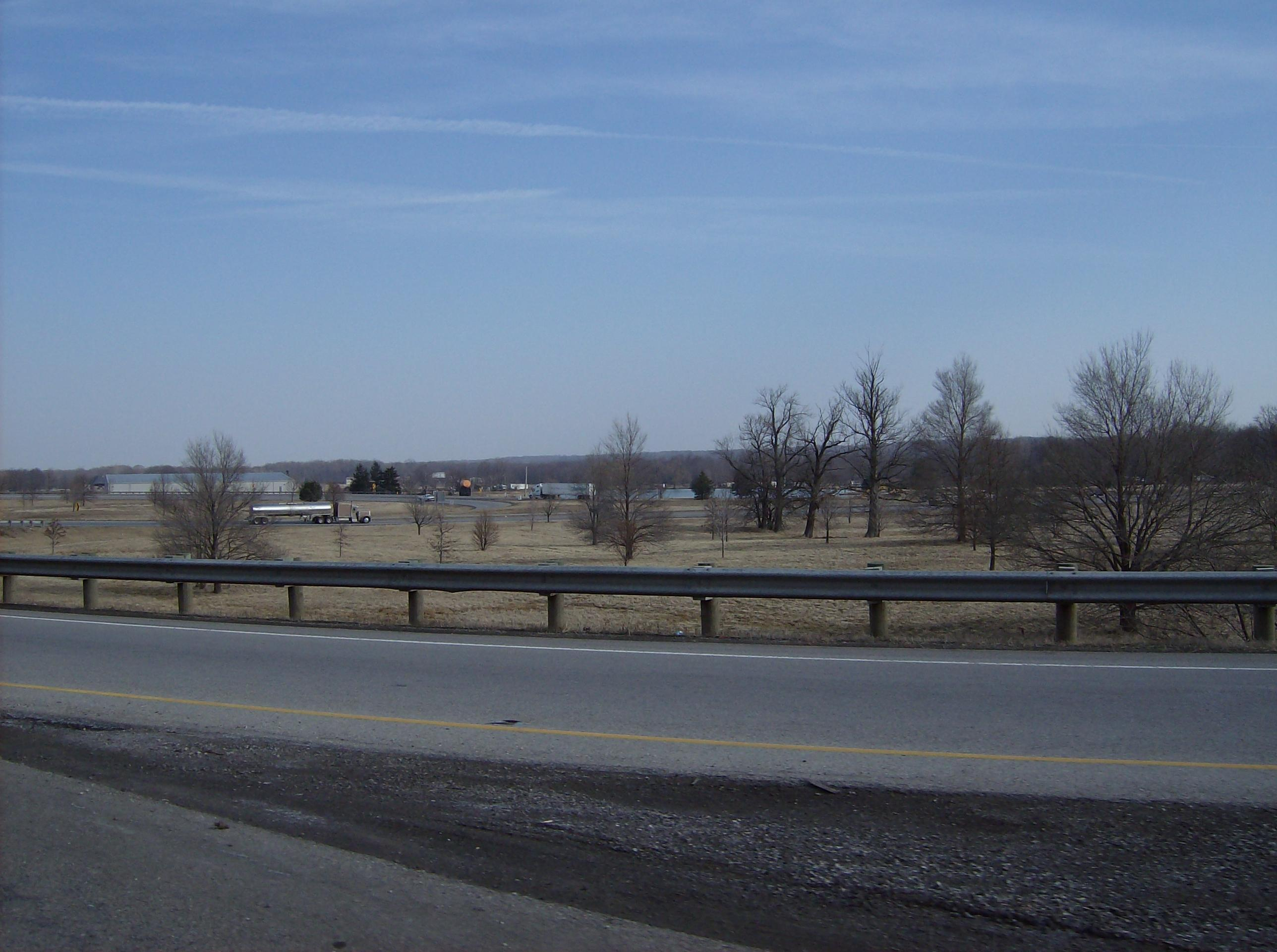 Overview of the interchange of Interstate 71 and U.S. Route 224 with the western end of Interstate 76 (east) in Westfield Township, Medina County, Ohio, United States. Picture taken from the eastbound I-76 ramp between the breakoff from I-71 and the connection with US 224.